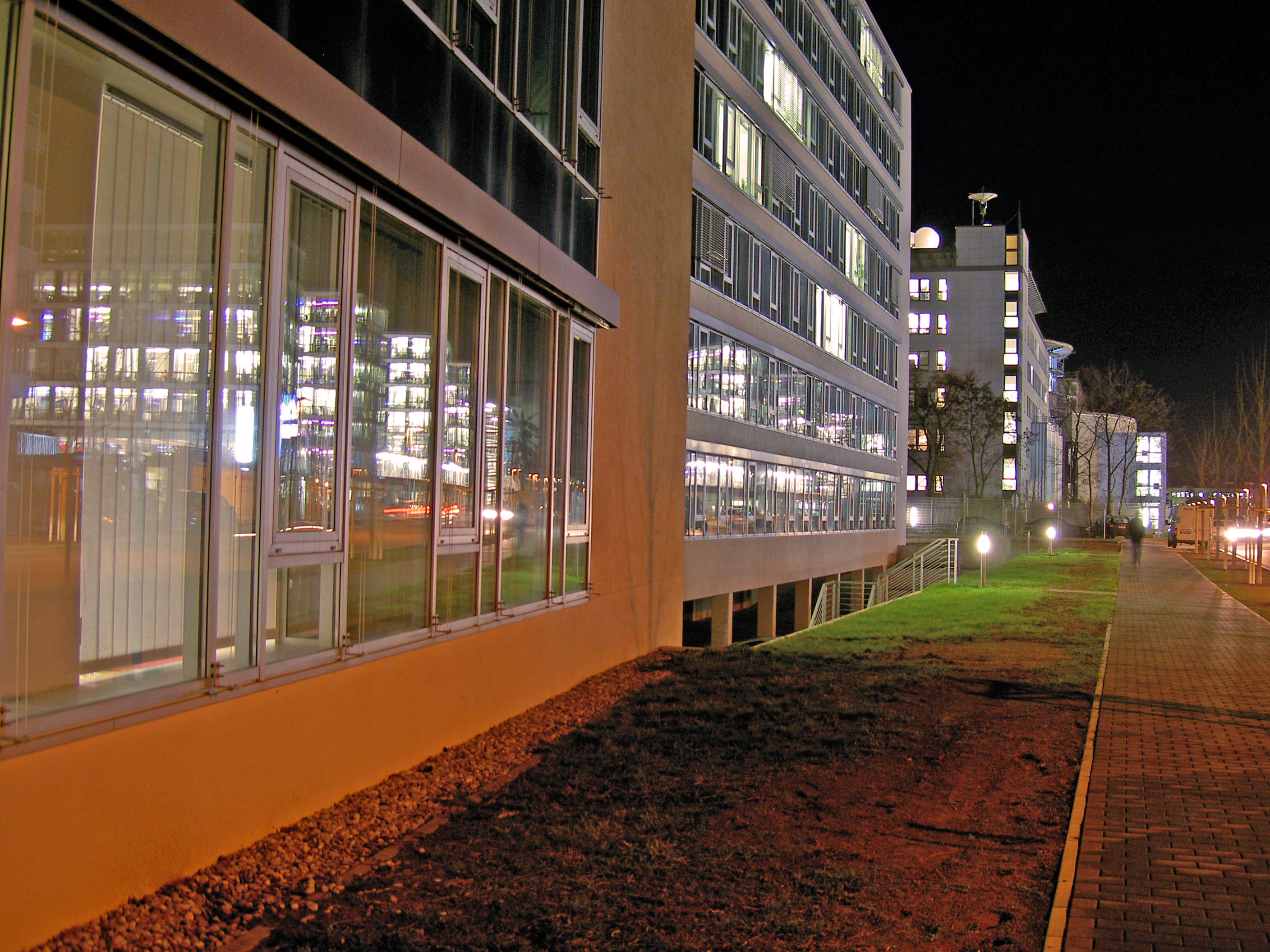 T-Online Headquarters, Darmstadt, Germany